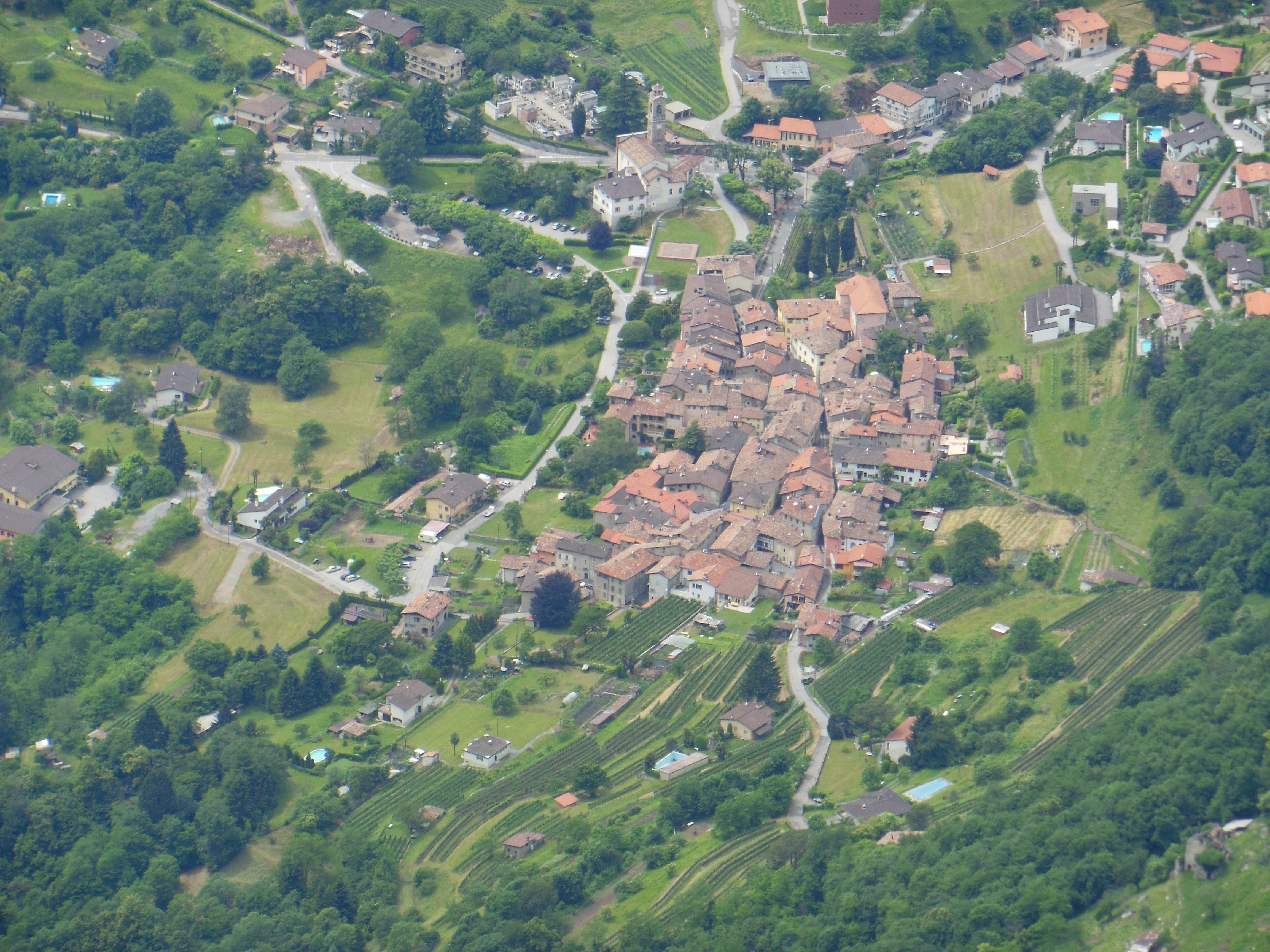 The village of Rovio seen from near the summit of Monte Generoso. For more information, see the Wikipedia articles Rovio and Monte Generoso.